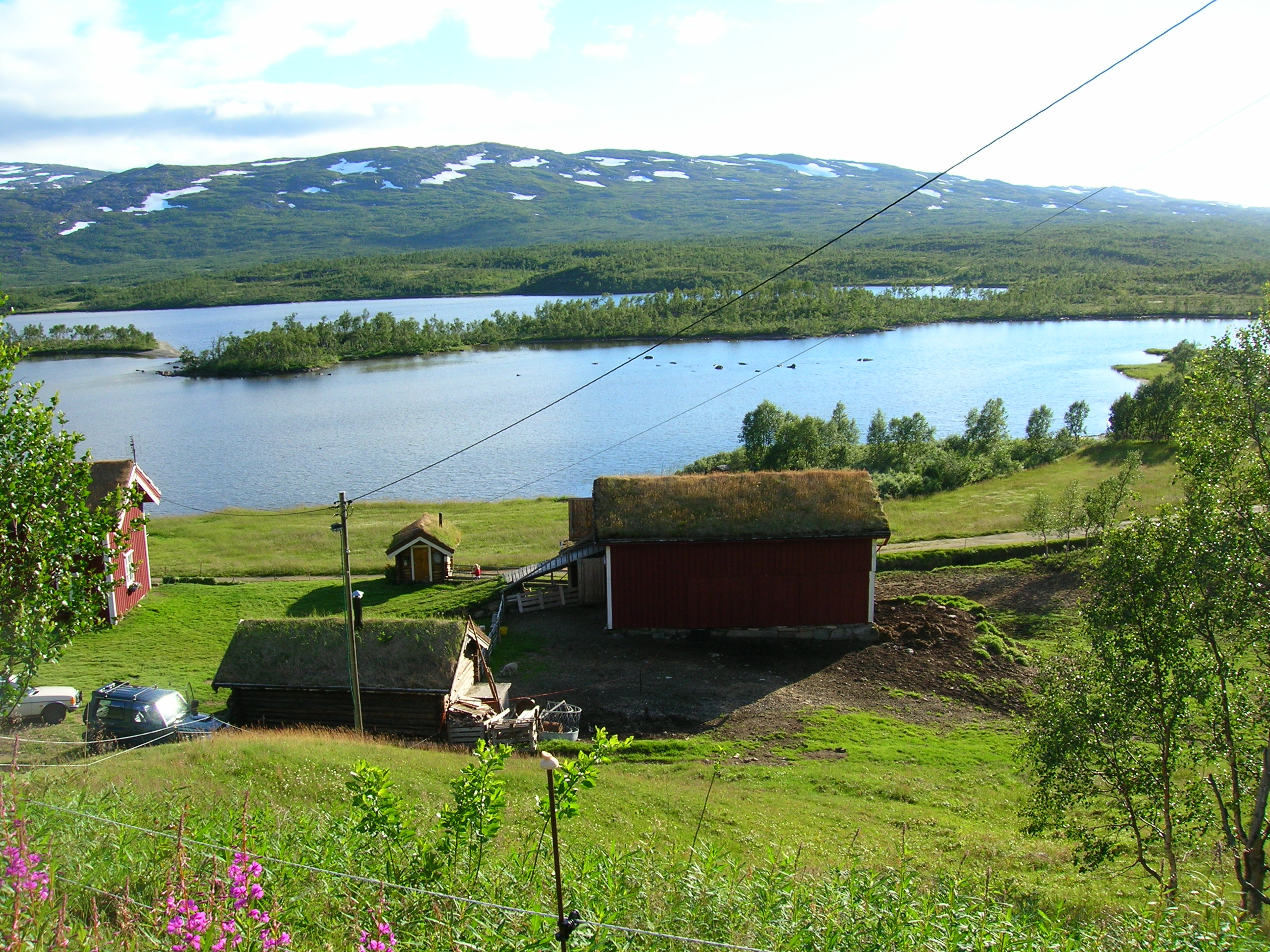 Raudvatnet in the autumn. Rana municipality, county of Nordland, Norway. Photo 30 September 2005 with a Nikon Coolpix 5600 5,1 Megapixel camera.